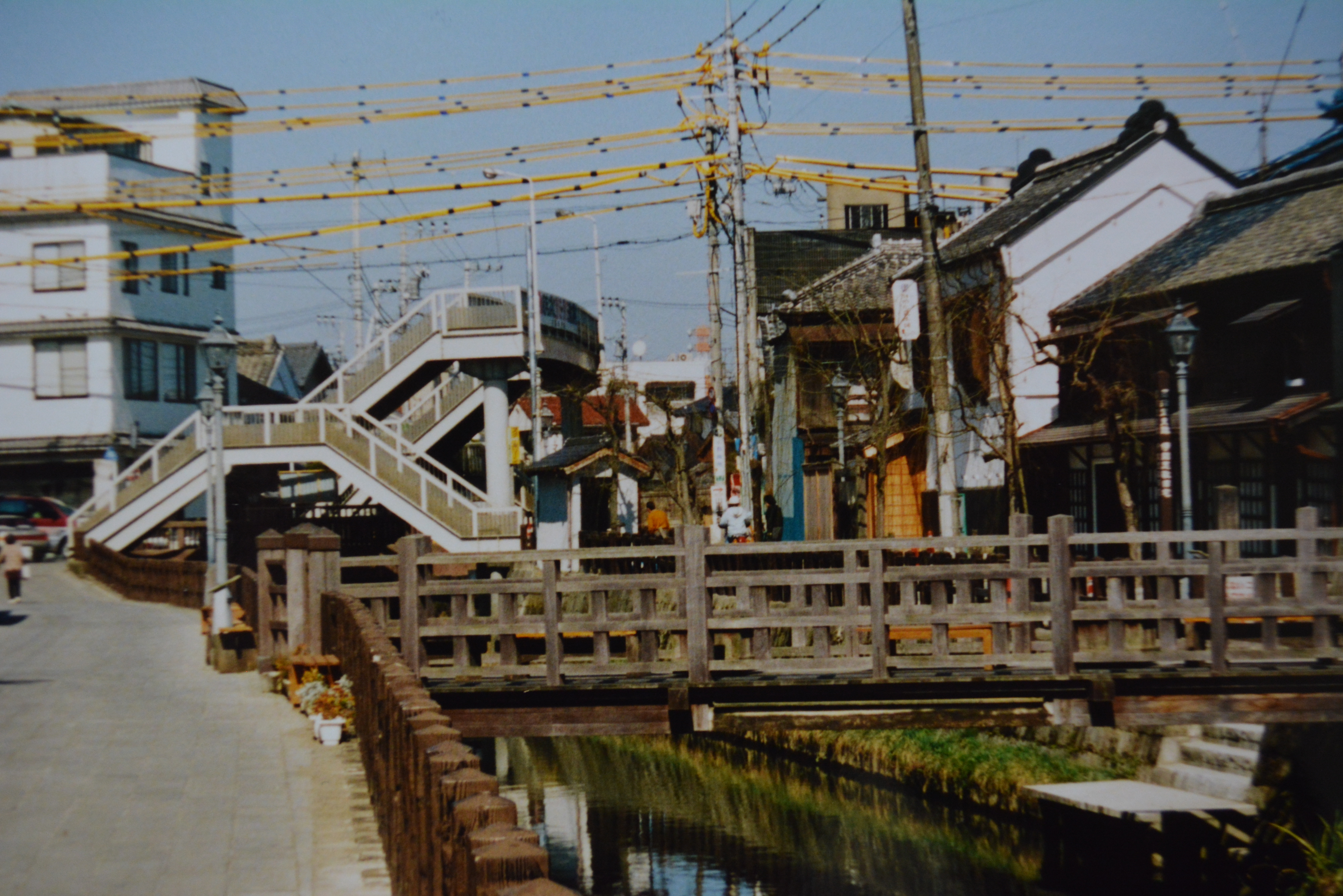 Ono-river and Chukei footbridge of Sawara in 1998, Katori city, Japan